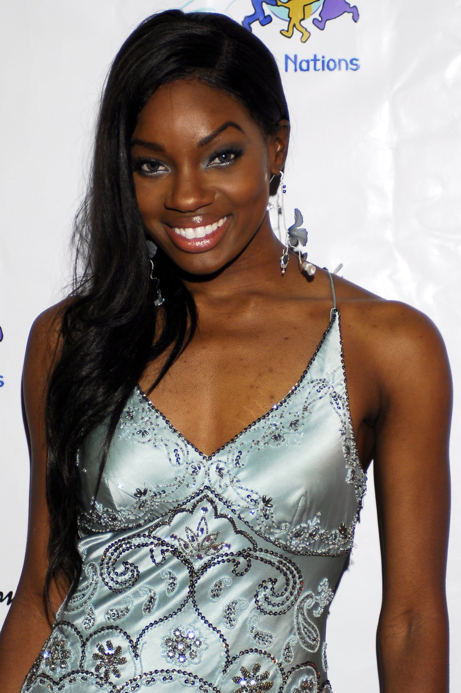 Celestina at the 79th Annual Academy Awards Children Uniting Nations/Billboard afterparty.